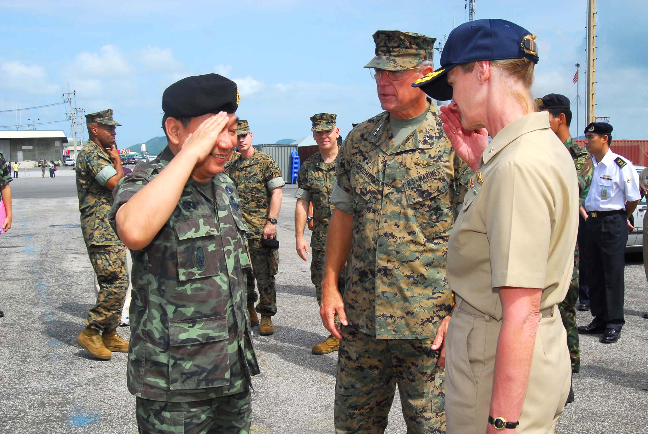 CHUK SAMET, Thailand (May 16, 2007) – Commander, Task Force 76 Rear Adm. Carol M. Pottenger salutes Royal Thai Army Gen. Kemarat Kanchanawat, Royal Thai Armed Forces Deputy Chief of the Joint Staff, with Lt. Gen. John F. Goodman, U.S. Marine Corps Forces Pacific, looking on. Top leaders of Thailand, Singapore and the United States joined together for capabilities tours aboard high-speed vessel MV Westpac Express (HSV 4676) and mine warfare ship USS Guardian (MCM 5). They also observed a Royal Thai Navy-Marine Corps non-combatant evacuation as part of Cobra Gold 2007. Cobra Gold is an annual multinational joint training exercise aimed at developing interoperability, strengthening relationships between services and developing cross-cultural understanding among participating nations. U.S. Navy photo by Mass Communication Specialist 2nd Class Adam R. Cole (RELEASED)